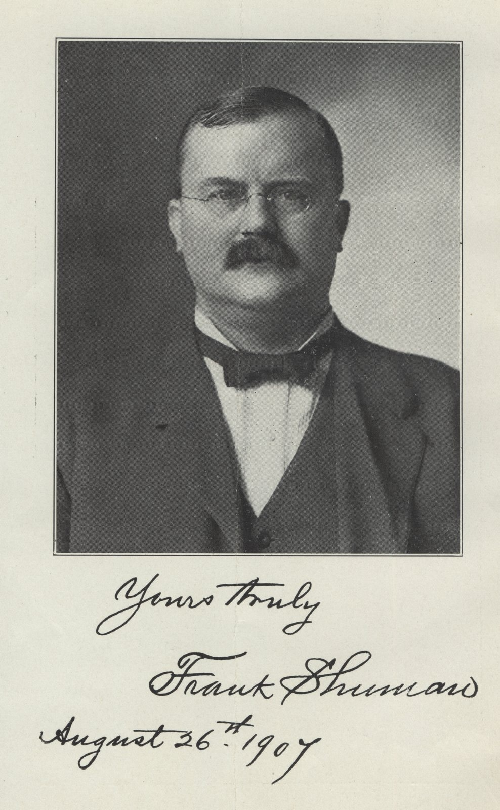 Frank Shuman (1862-1918)